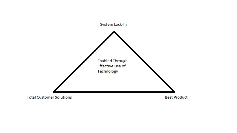 Delta Model Triangle